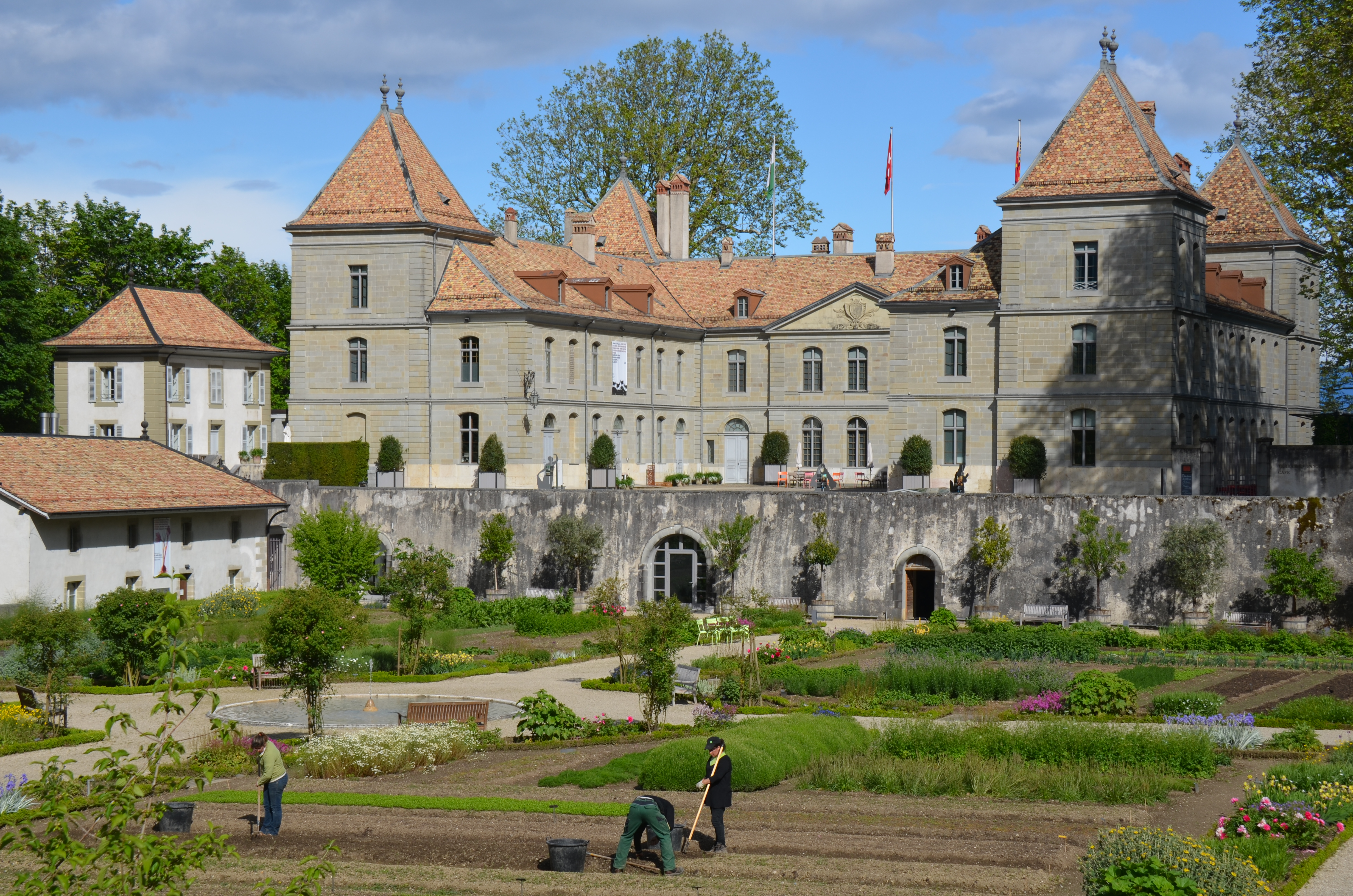 Castle of Prangins near the Lake Geveva (Lac Leman), built between 1720-1730